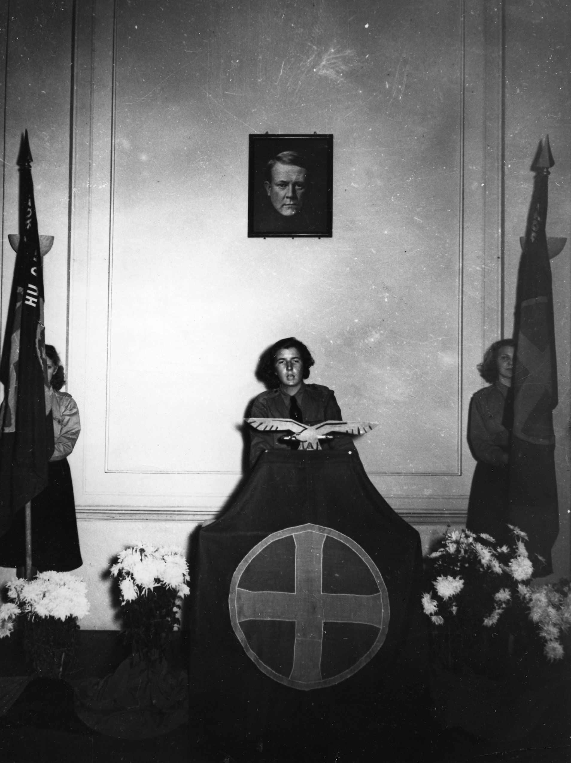 Vidkun Qusiling (1887–1945) was a Norwegian military officer and politician. He first came to international prominence when organizing humanitarian relief during the Russian famine of 1921 in Ukraine. He served as Minister of Defence in two governments 1931–1933, representing the Farmers' Party. On 9 April 1940, with the German invasion of Norway in progress, he attempted to seize power in the world's first radio-broadcast coup d'état, but failed after the Germans refused to support his government. From 1942 to 1945 he served as Minister-President, heading the Norwegian state administration jointly with the German civilian administrator Josef Terboven. His pro-Nazi puppet government, known as the Quisling regime, was dominated by ministers from Nasjonal Samling, the party he founded in 1933. Quisling was put on trial during the legal purge in Norway after World War II and executed by firing squad at Akershus Fortress, Oslo, on 24 October 1945.